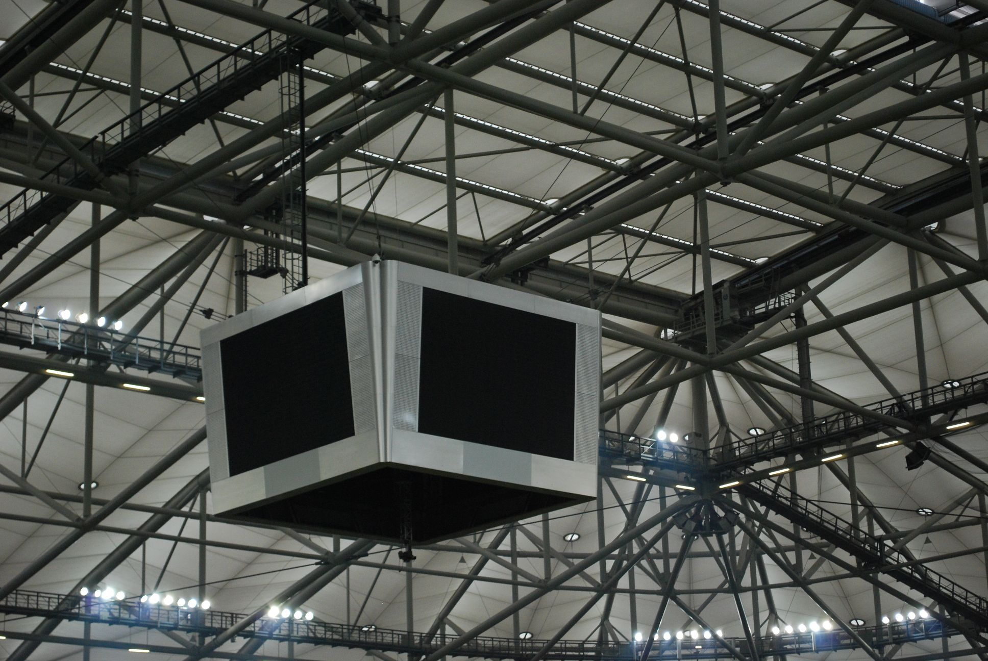 This is the video cube in the Veltins-Arena, Gelsenkirchen. Picture taken during the T-Home Cup 2009.